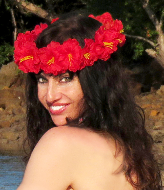 I made this picture on summer 2018, it's newer than the one uploaded from a captured video on Youtube, I hope you won't change it anymore.